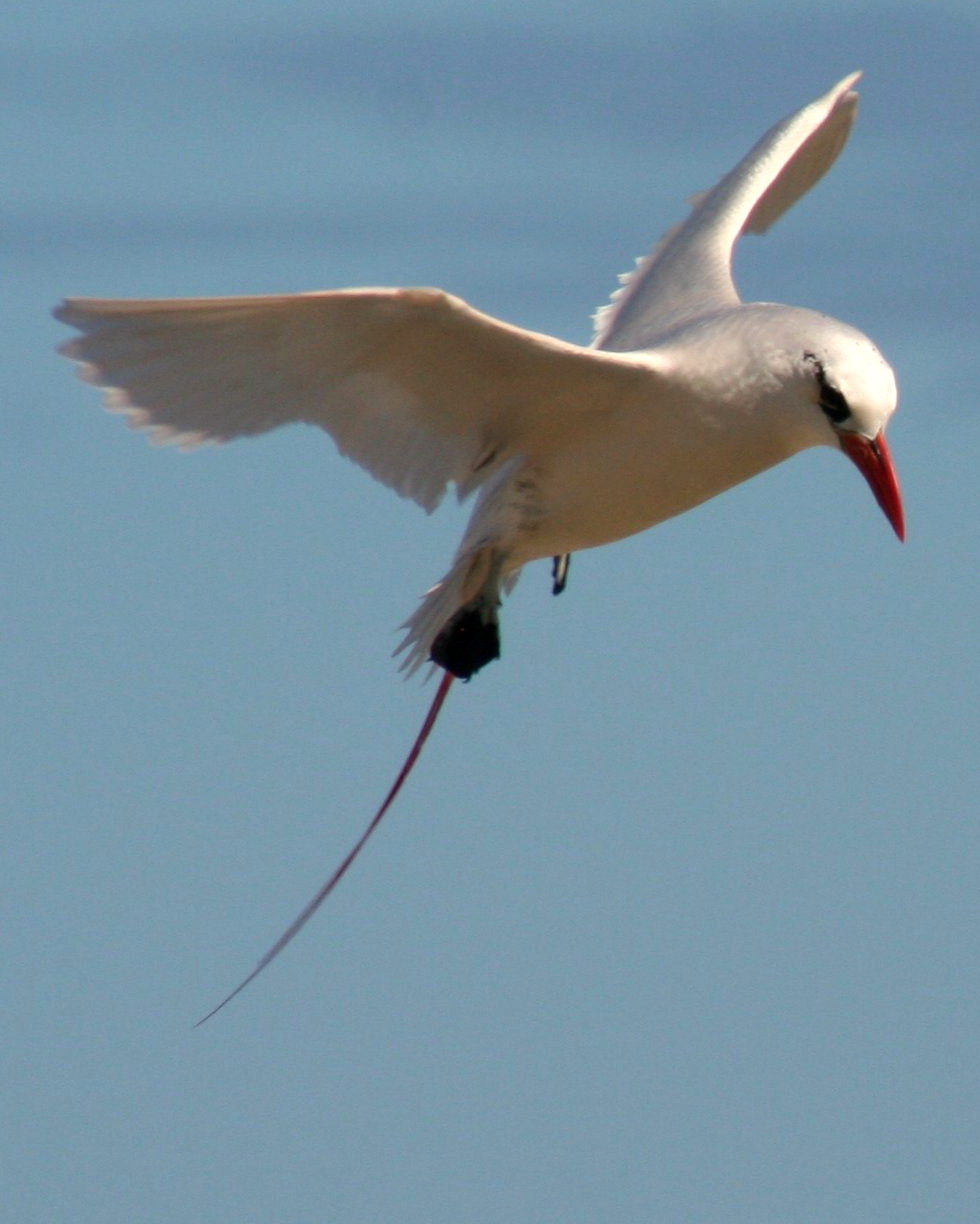 Red-tailed Tropicbird Phaethon rubricauda, Tern Island, French Frigate Shoals